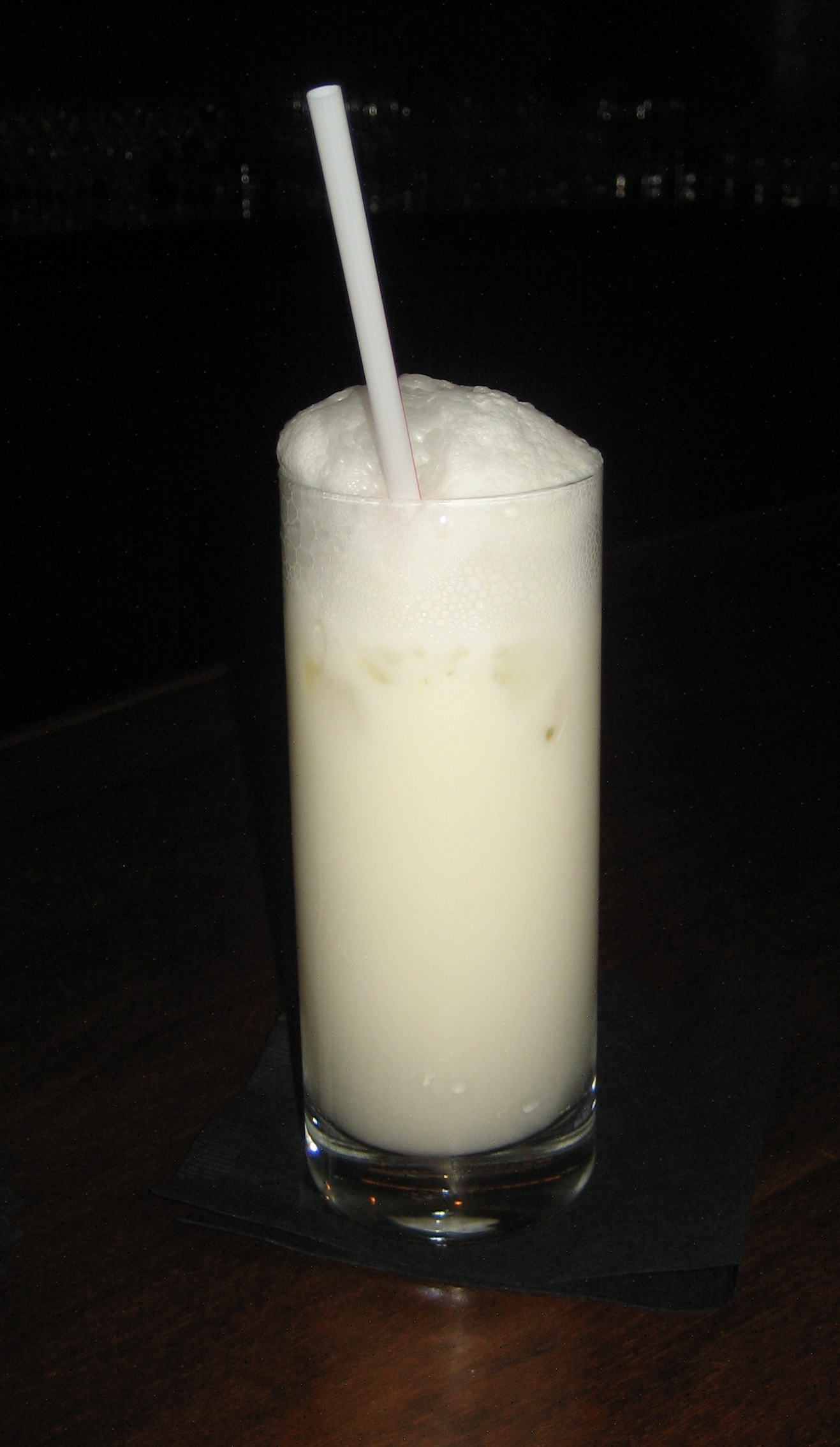 Ramos gin fizz cocktail at the Sazerac bar, Roosevelt Hotel, New Orleans.